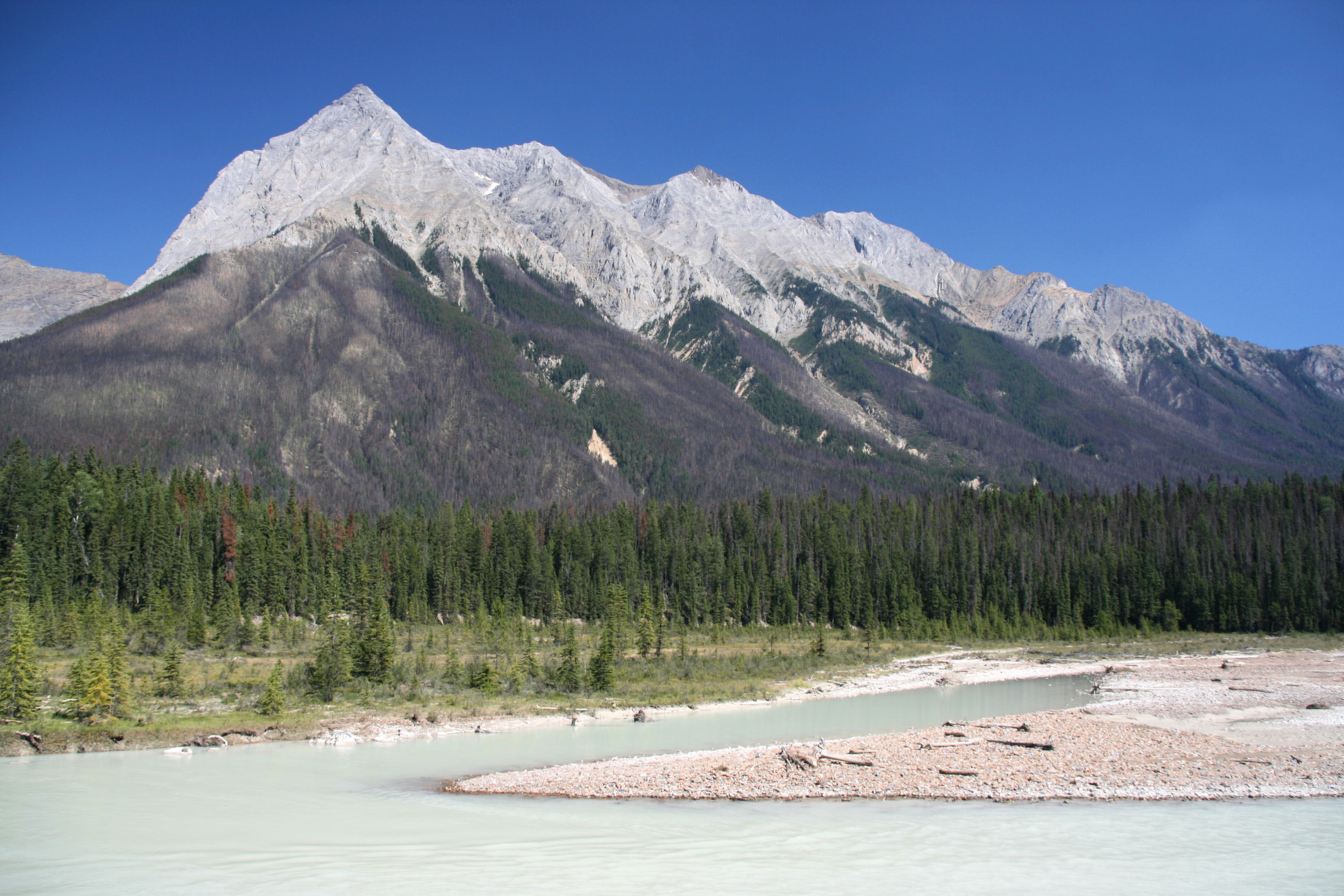 Chancellor Peak in Yoho National Park of Canada. Towering above Kicking Horse Valley. The river visible is Kicking Horse river. Photo taken from Trans-Canada Highway. The greyish areas of the forests are from a prescribed fire in 2005